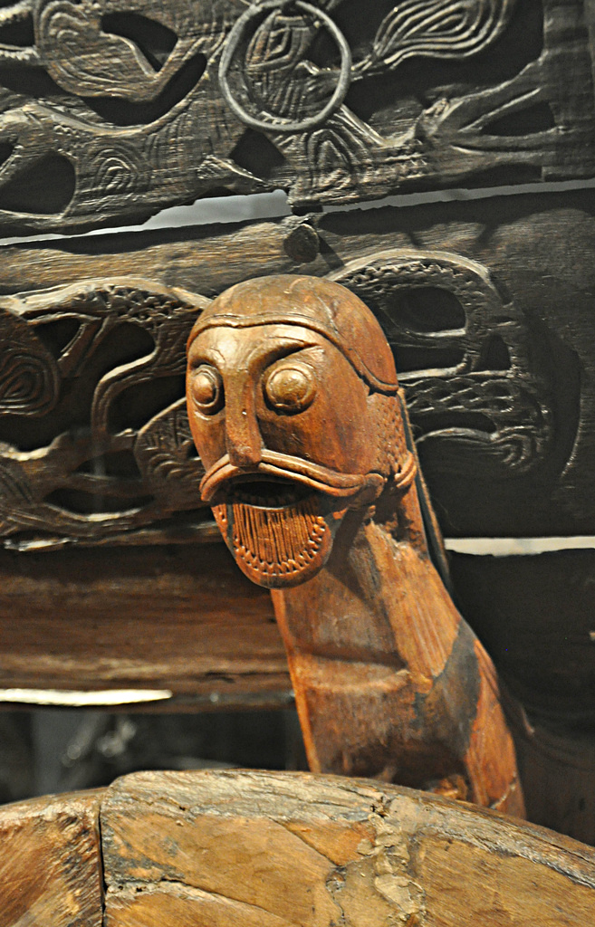 Bearded man, a detail on the richly carved four-wheeled cart that was found during the 1904-1905 excavations of the Oseberg burial mound. The mound contained numerous grave goods and two female human skeletons.